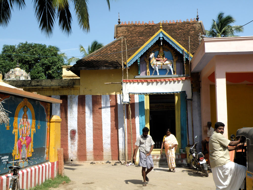 Azhakamman Koil, Vadiveeswaram, Nagercoil, Tamil Nadu, India.